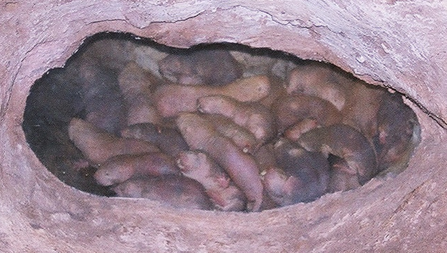 Naked mole rats. Cropped version of File:Naked Mole Rats.jpg.